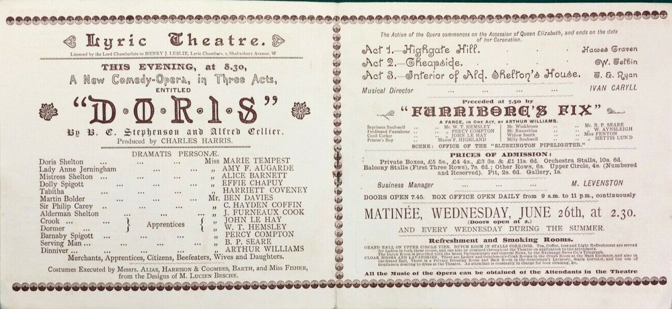 Inside a programme from the original production of 'Doris' at the Lyric Theatre (1889)